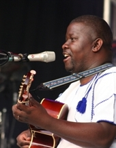 crop of File:Manecas Costa2.jpg